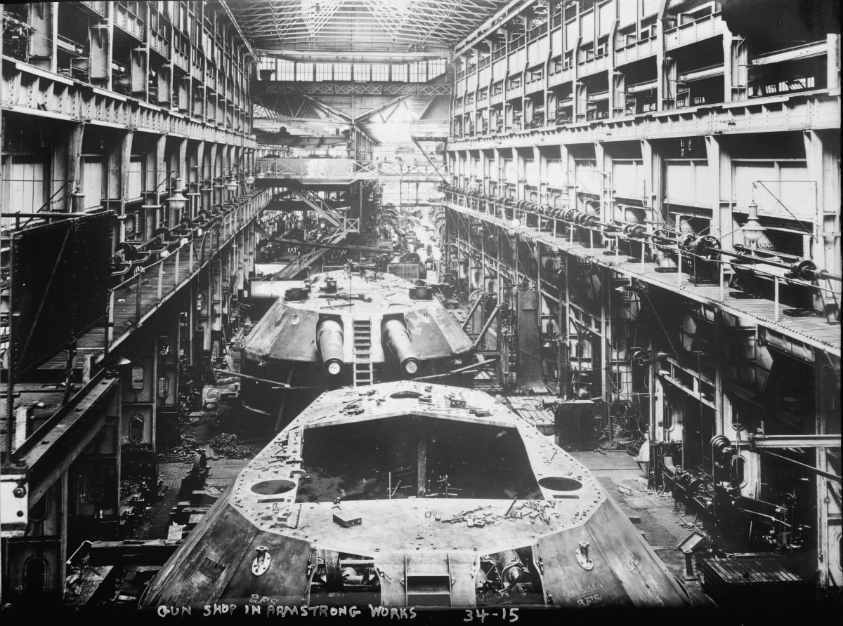 Photograph showing gun shop at Armstrongs works. This is believed to show the two 12-inch gun turrets for British battleship HMS Cornwallis under construction. See File:Gun Shop in Armstrong Works Cornwallis closeup LOC ggbain 00178.jpg for closeup of markings on foreground turret faces, indicating Cornwallis.